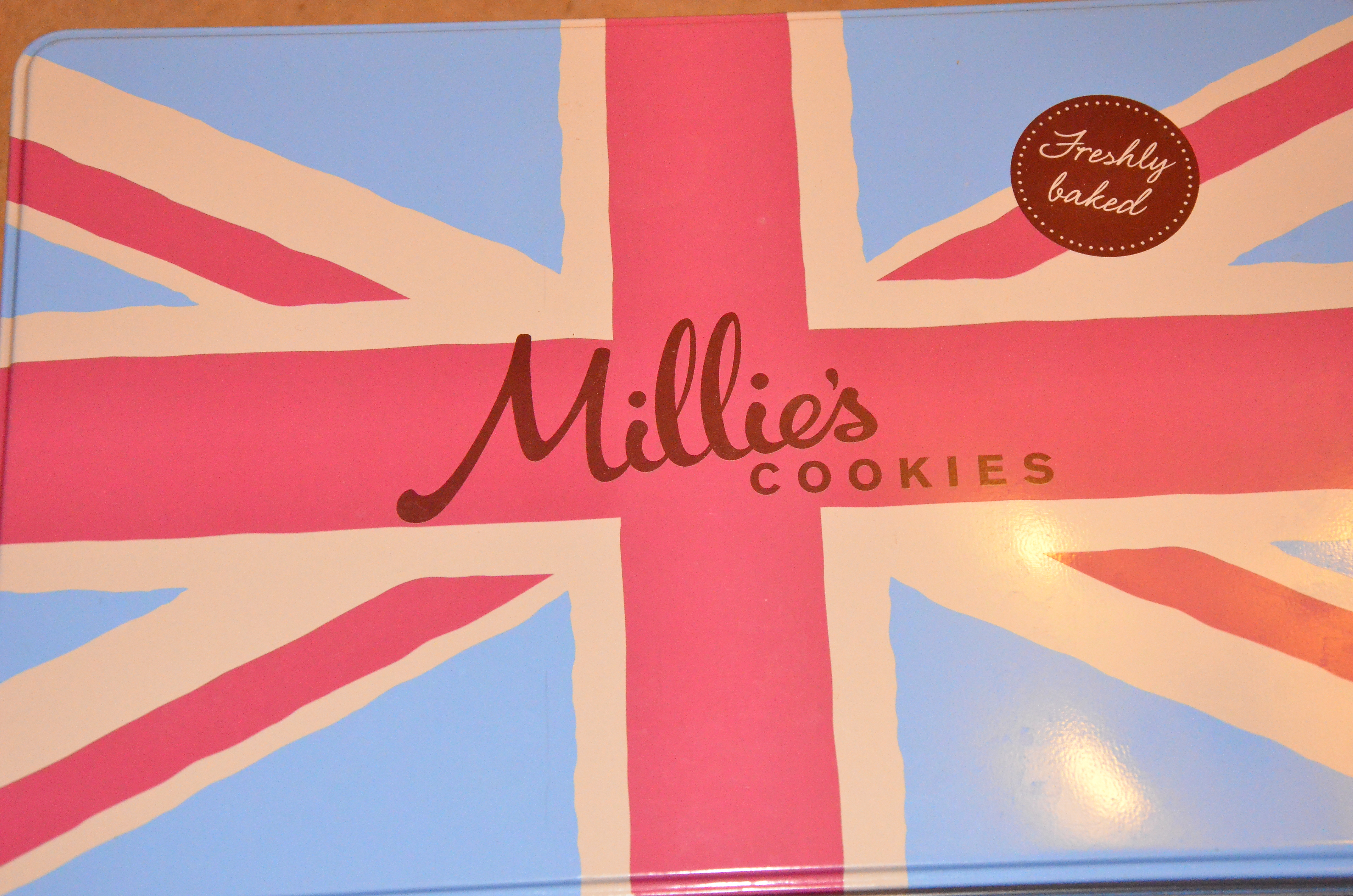 Millie's Cookies UK union flag tin